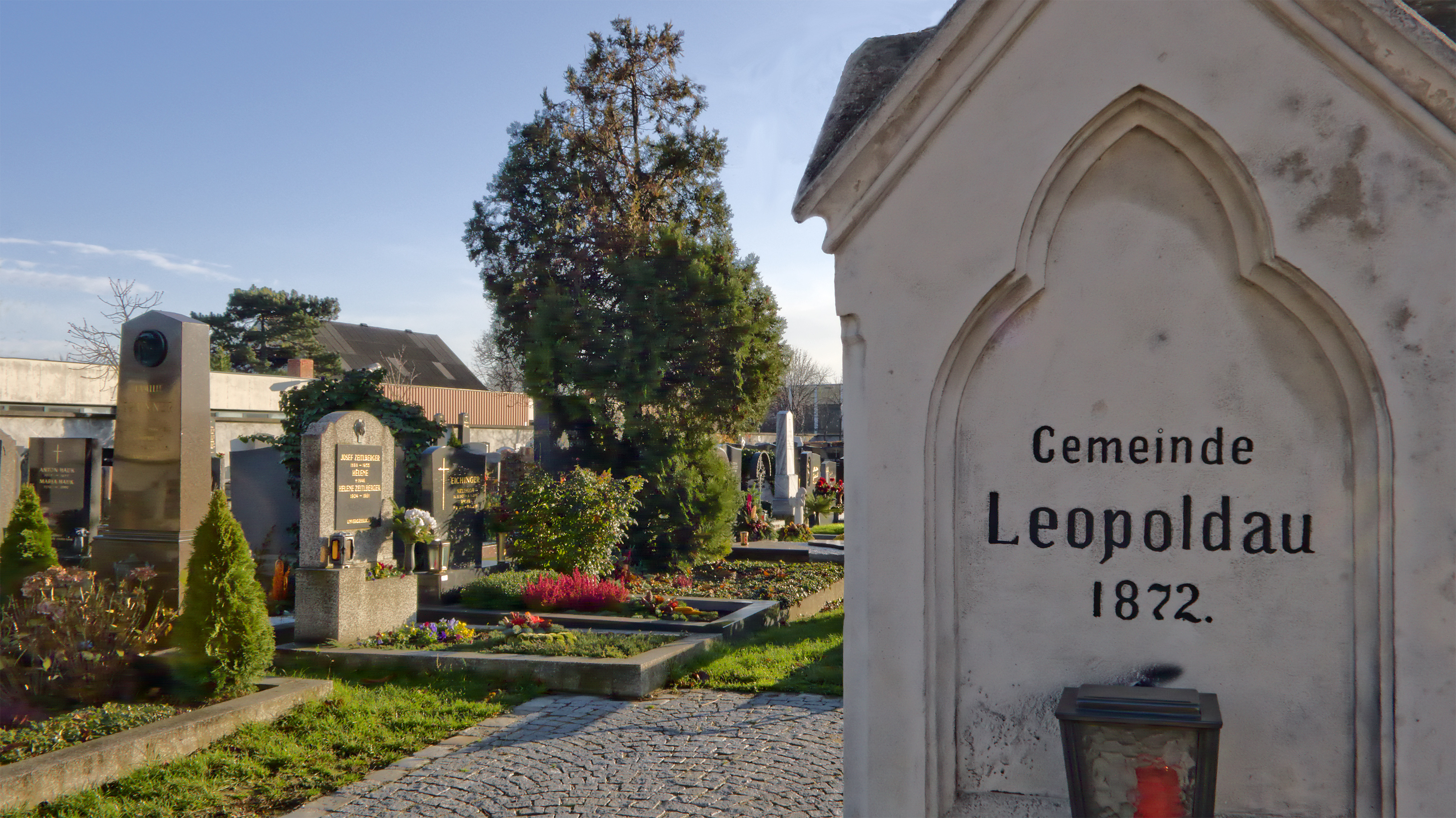 Leopoldauer Friedhof in Vienna Floridsdorf